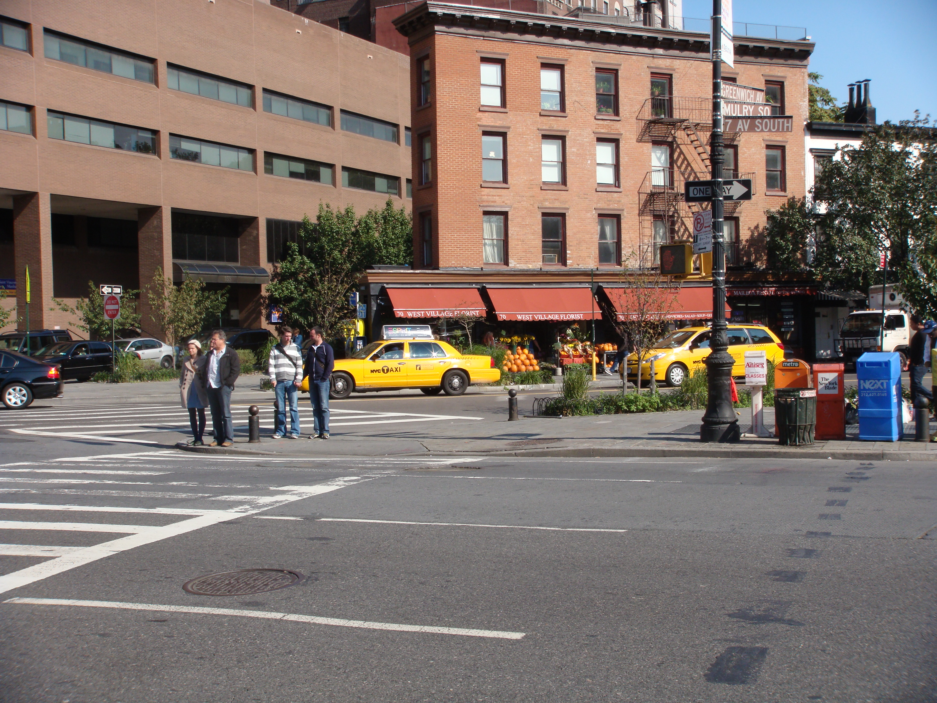 This photo is of Wikis Take Manhattan goal code F30, Mulry Square.